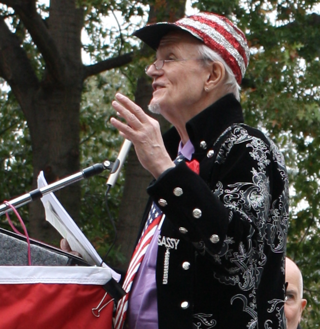 Randy Wicker at the Leonard Matlovich Ceremony on October 10, 2009